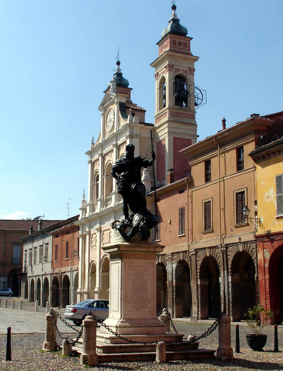 Ferrante I Gonzaga, ruler of Guastalla.